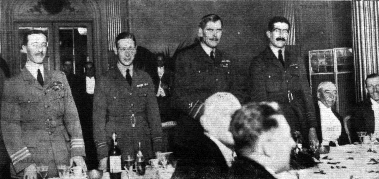 The Independent Air Force Dinner on 14 July 1919 at the Savoy Hotel, London. Left to right are: Lieutenant Colonel C L N Newall, HRH Prince Albert, Major-General Sir Hugh Trenchard, Colonel C L Courtney